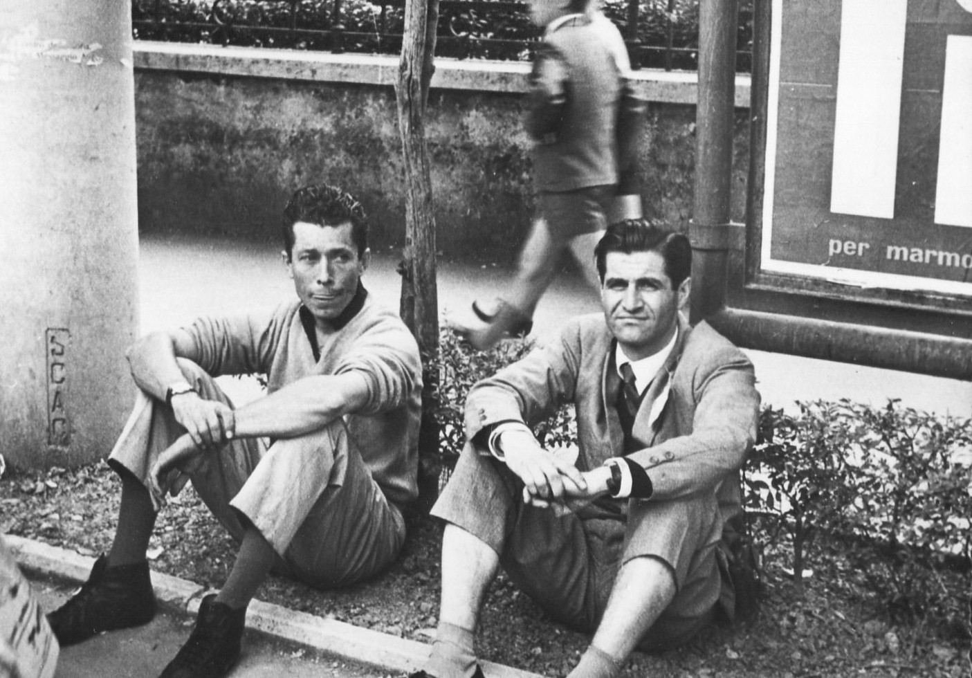 Olivier Gendebien and Giotto Bizzarrini (right) in early 1960s.